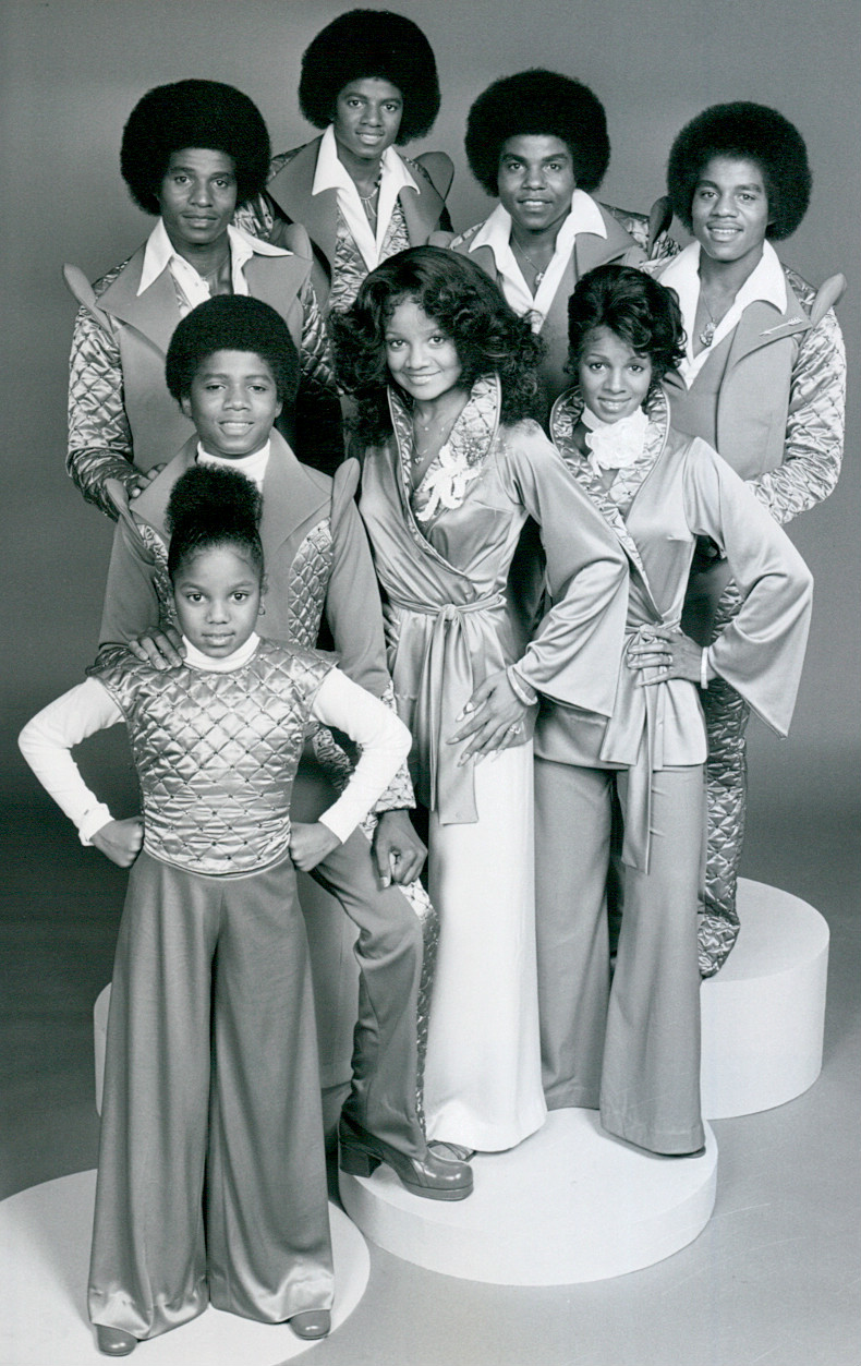 The Jackson siblings from their television program The Jacksons.Front, from left: Janet, Randy, La Toya, Rebbie.Back, from left: Jackie, Michael, Tito, Marlon.Note: Jermaine was not part of the television program due to contractual issues and is not pictured.